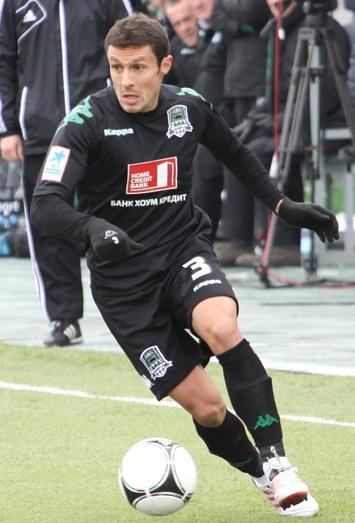 Dušan Anđelković with FC Krasnodar.